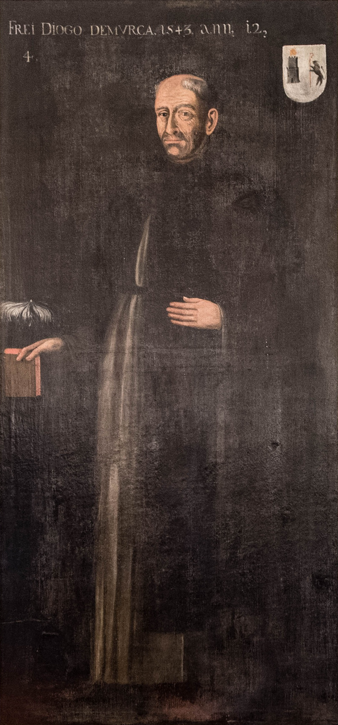 Friar Diogo de Murça (d. 1561), Jeronimite friar, humanist, and Rector of the University of Coimbra from 1543 to 1555.